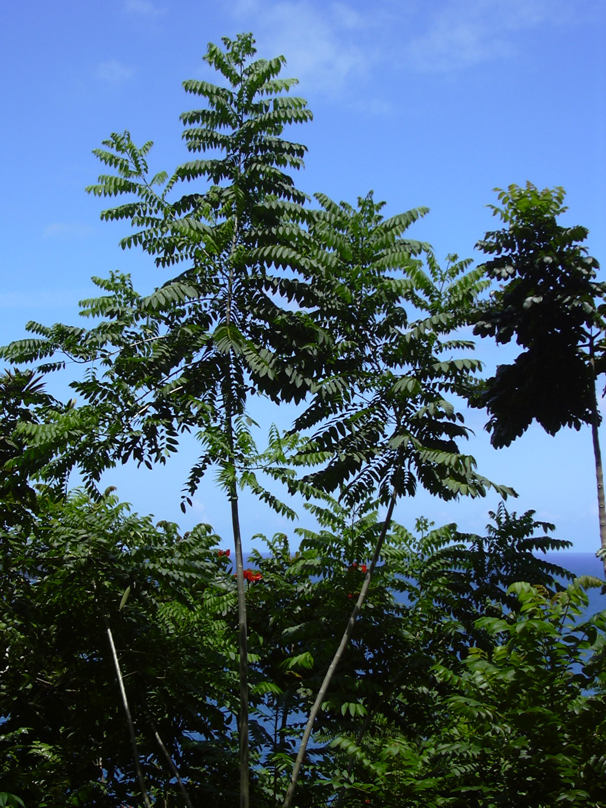 Cedrela odorata (habit). Location: Maui, Hana Hwy